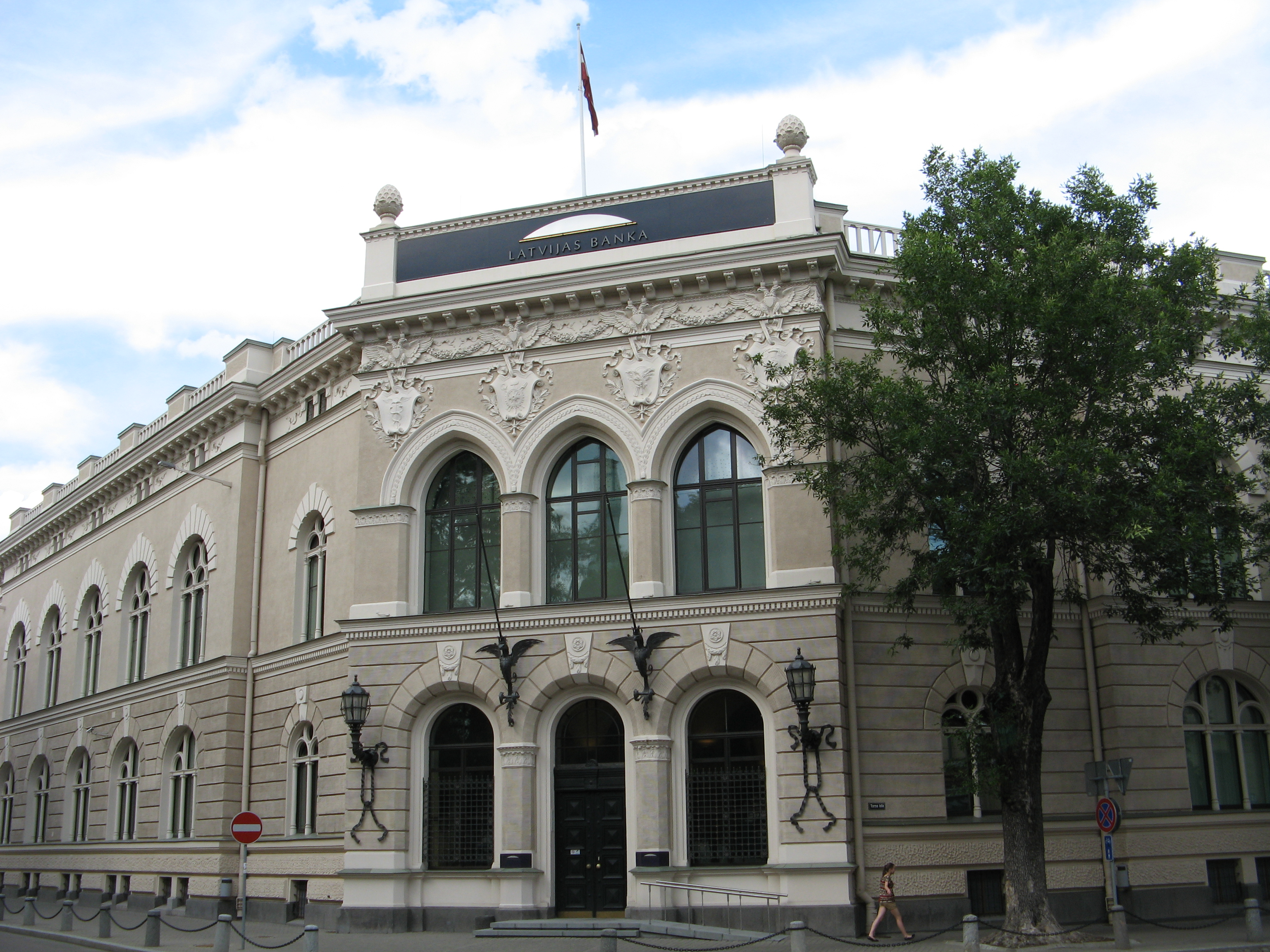 Headquarters of the Bank of Latvia in Riga.